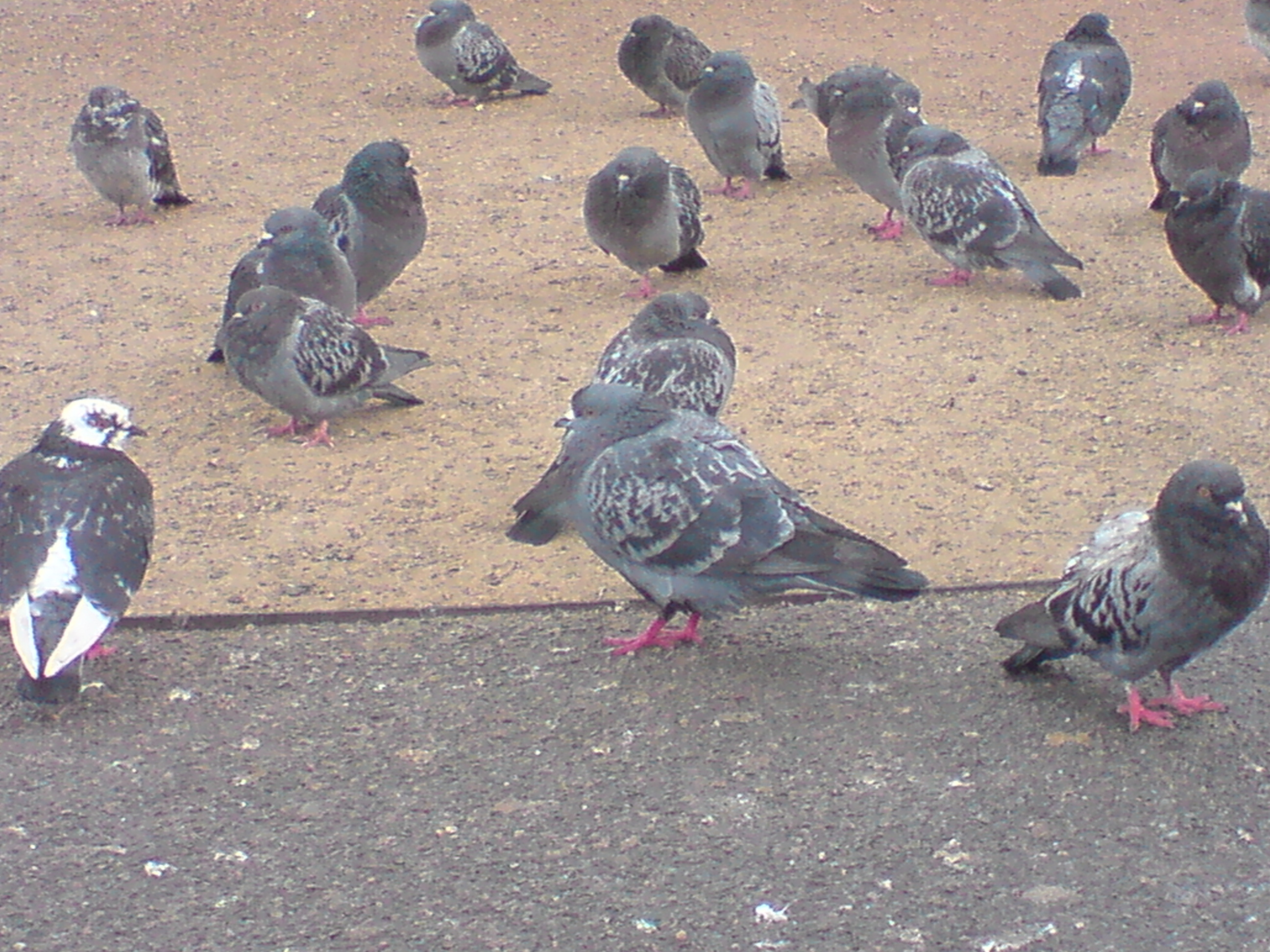 Domesticated Pigeons (Columba livia domestica) at Richmond Bridge, England.